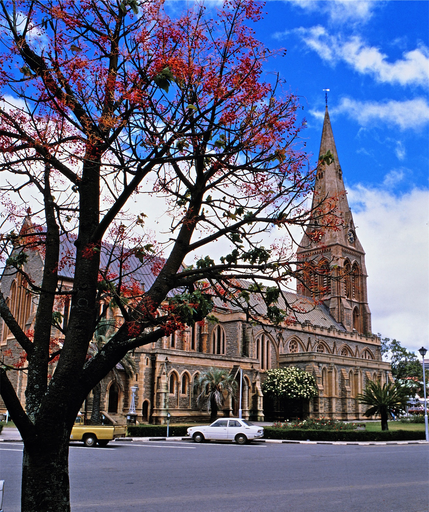 This media shows a South African Protected Site with SAHRA file reference 0000000000.